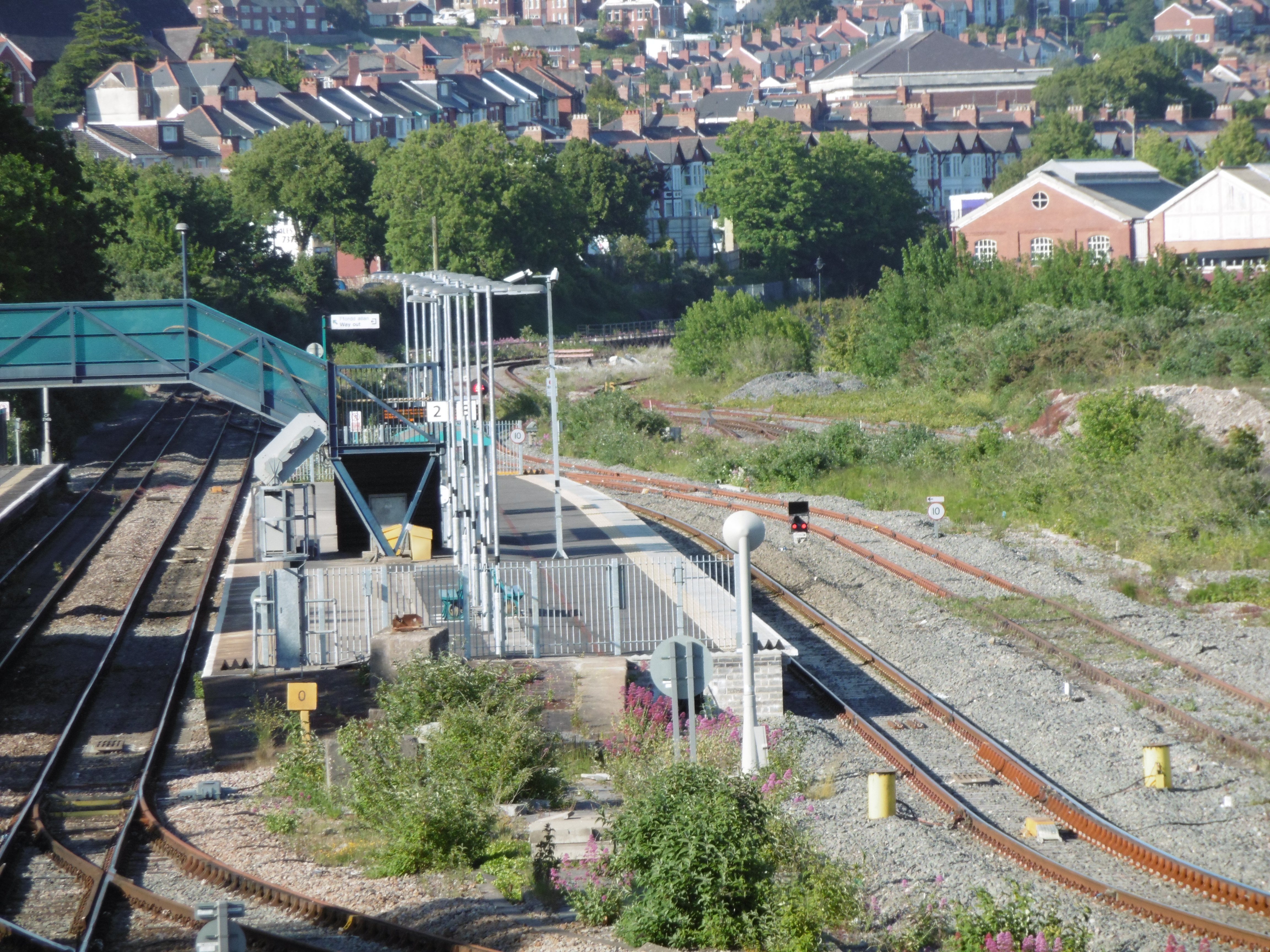 Barry station showing the reinstated bi-directional platform 3 to & from Barry Island, on the right. The previous down line to Barry Island from platform 2 (bottom left) is now severed 100 metres from the facing points seen and terminates with a buffer stop.(Off picture.) The zero milepost for the Vale of Glamorgan branch (VOG), coinciding with 8miles-16chains (BRY branch) from the Barry zero at Cardiff West is seen as a yellow milepost just right of the junction near ground level.